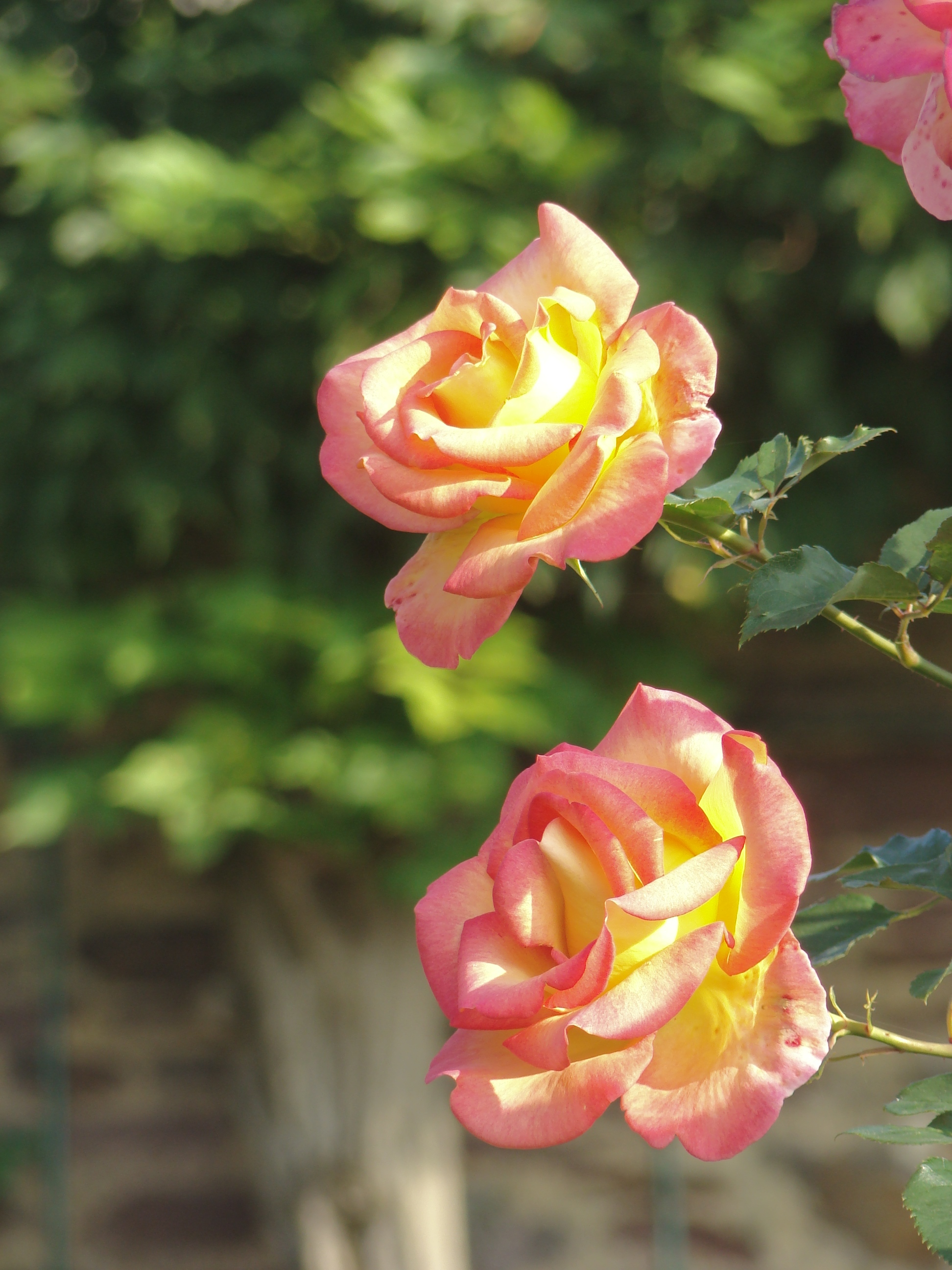 Rose 'Jean Piat' in the botanical garden of Thabor park.